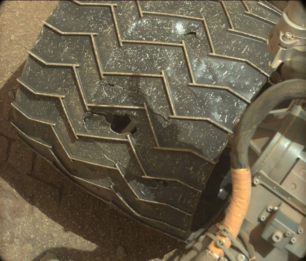 This image was taken by Mastcam: Left (MAST_LEFT) onboard NASA's Mars rover Curiosity on Sol 962 (2015-04-21 12:26:37 UTC).